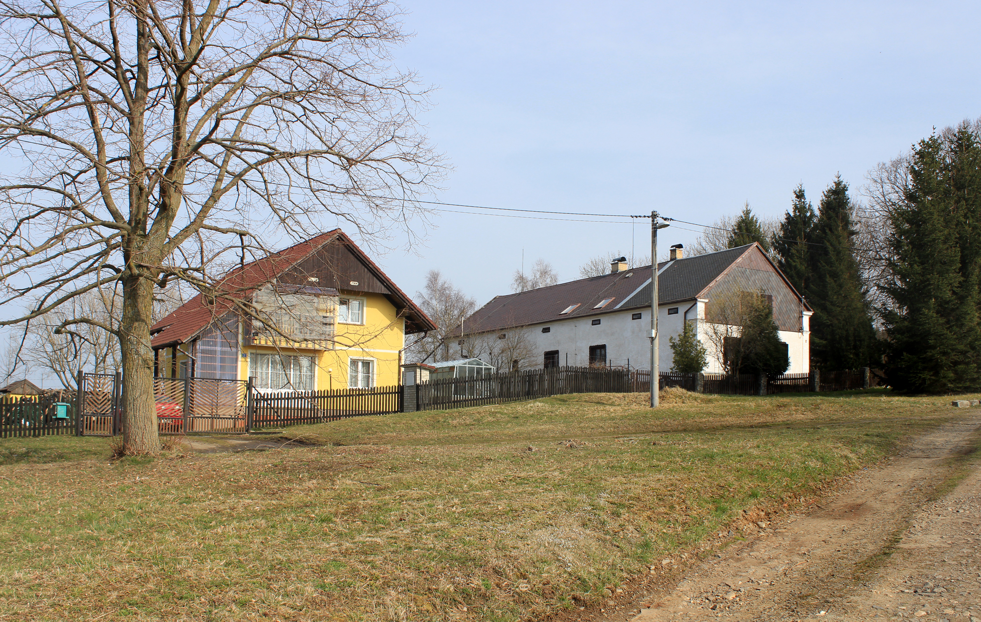 House No. 2 in Černá Hora, part of Bělá nad Radbuzou, Czech Republic.